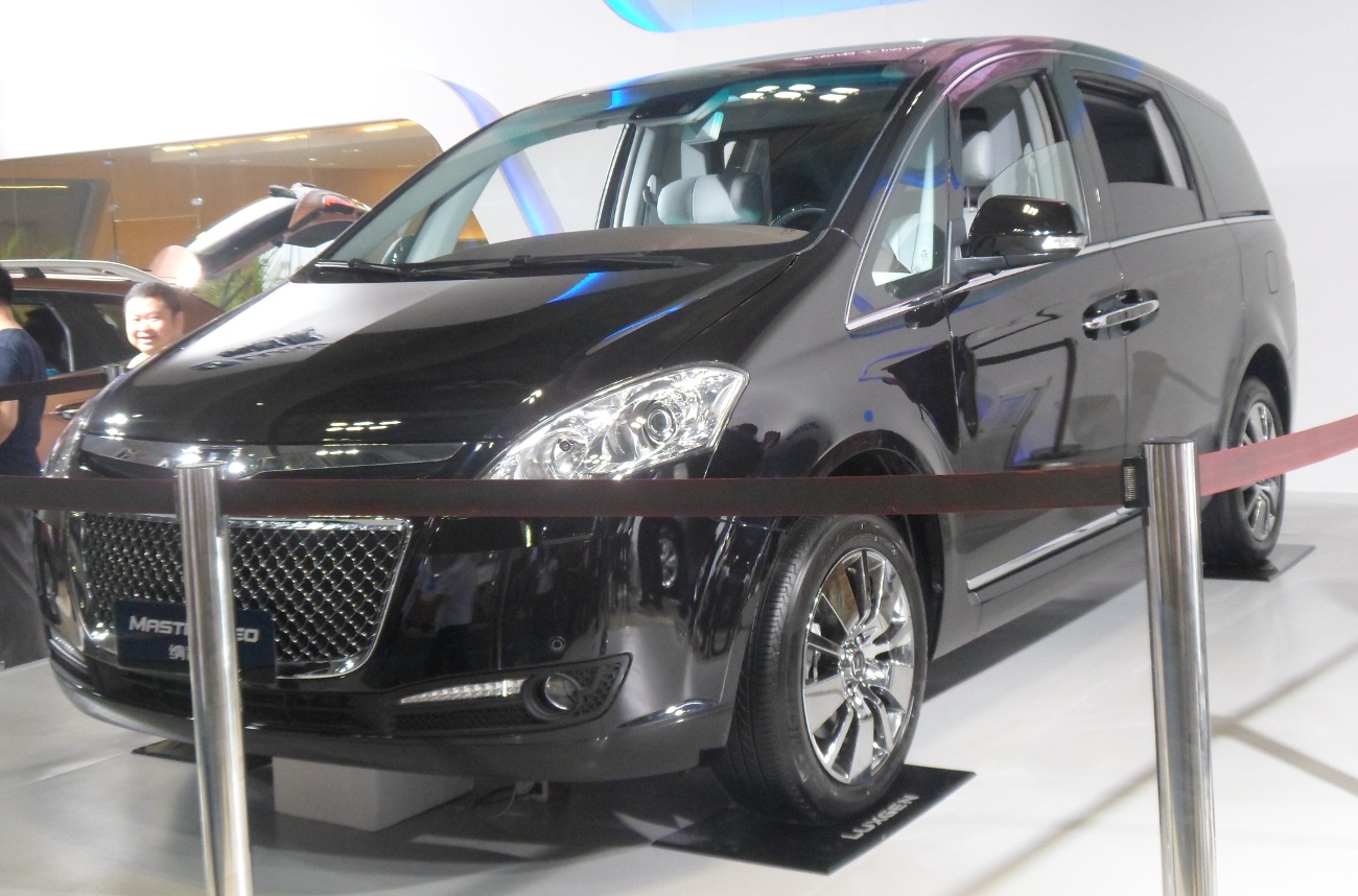 Luxgen Master CEO photographed at the 2012 Chongqing Auto Show, Chongqing, China.